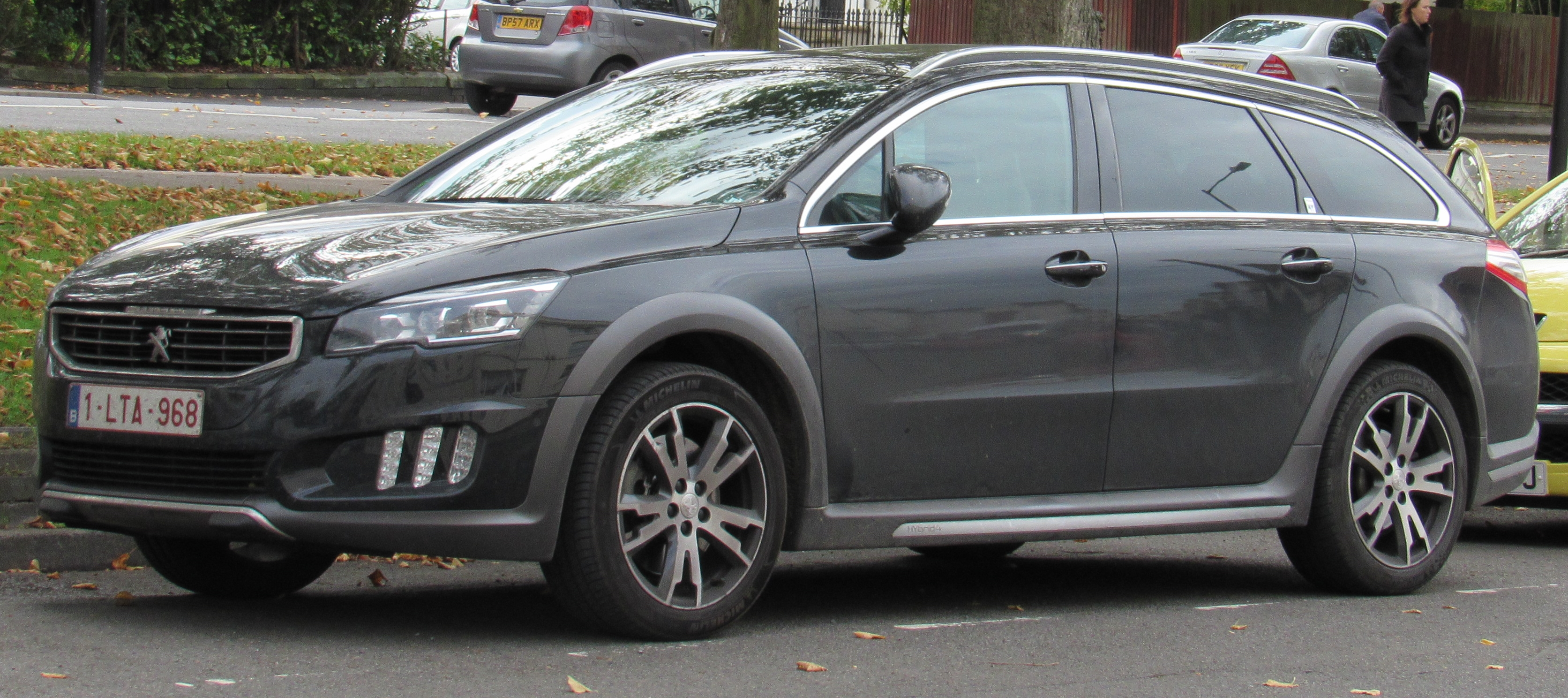 Peugeot 508 RXH 2.0 Facelift Front Taken in Leamington Spa